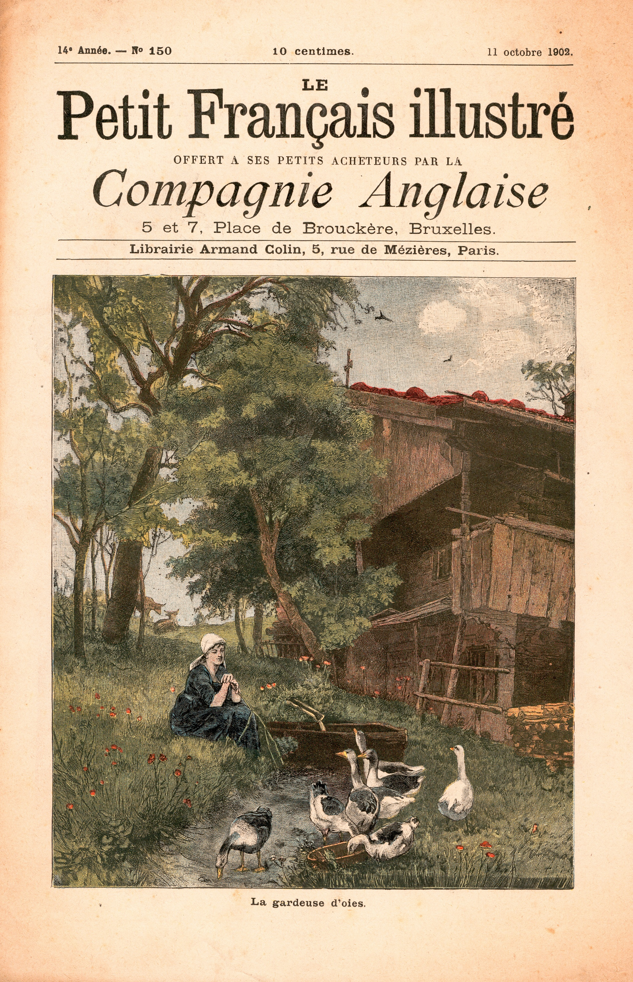 Le Petit Français illustré, French youth newspaper, Belgian edition, No 150, October 11th, 1902, with an illustration by an unknown artist